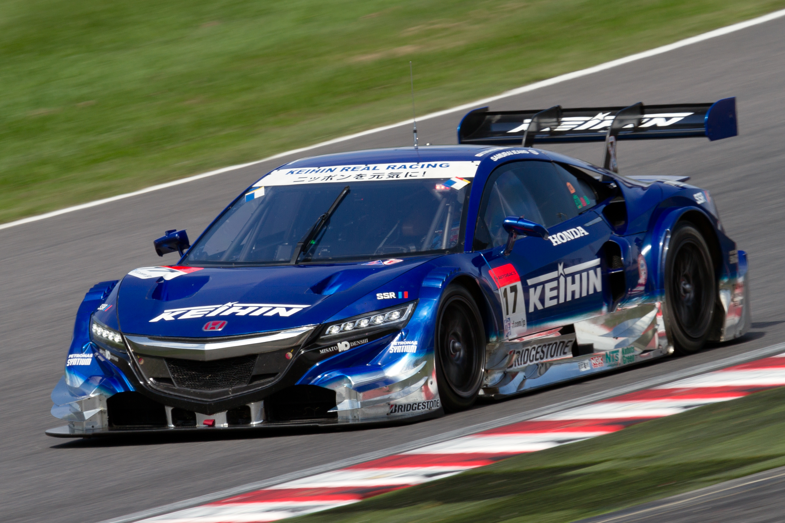 Super GT 2014 Rd.6 Suzuka 1000km: Koudai Tsukakoshi (Real Racing)